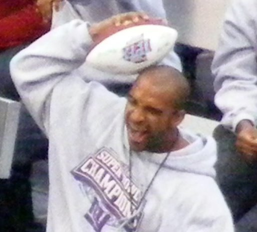 Tyree Head Catch